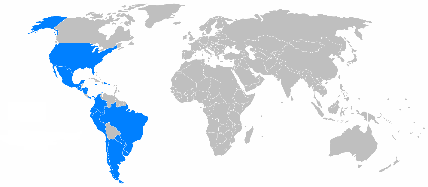 america movil companies in the world